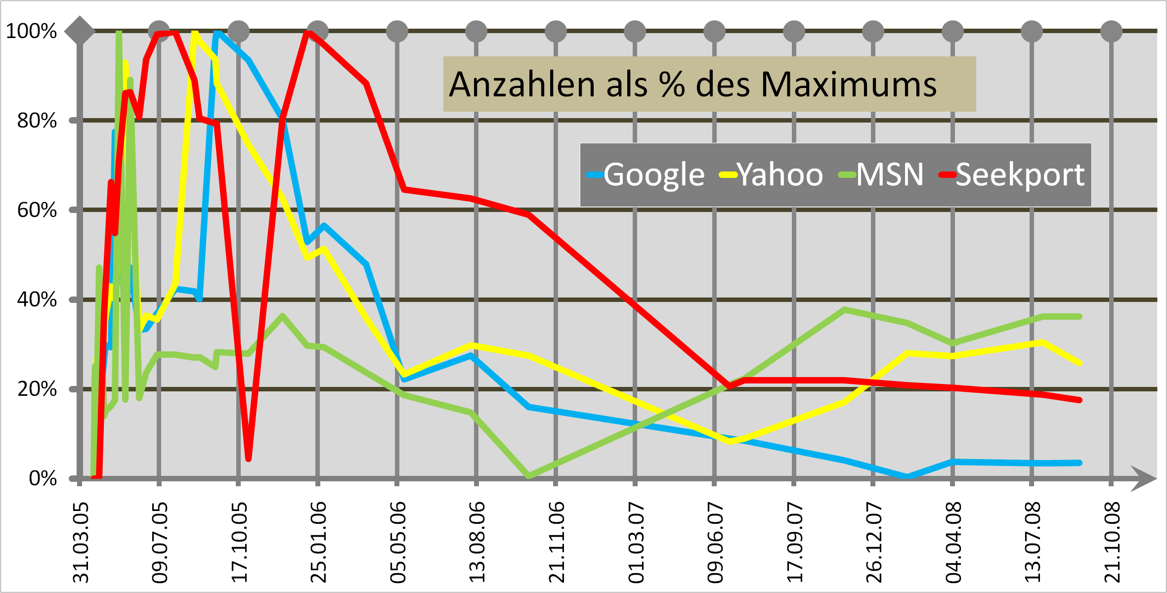 The Hommingberger Gepardenforelle was a fictitious name from the german technical journal c't to research the formalism of seek by search engines. Here is a graphic with the hits between 2005-04-01 and dec 2008 for Google, MSN, Yahoo and Seekport. The ordinate is given as percent of the maximum each engine.